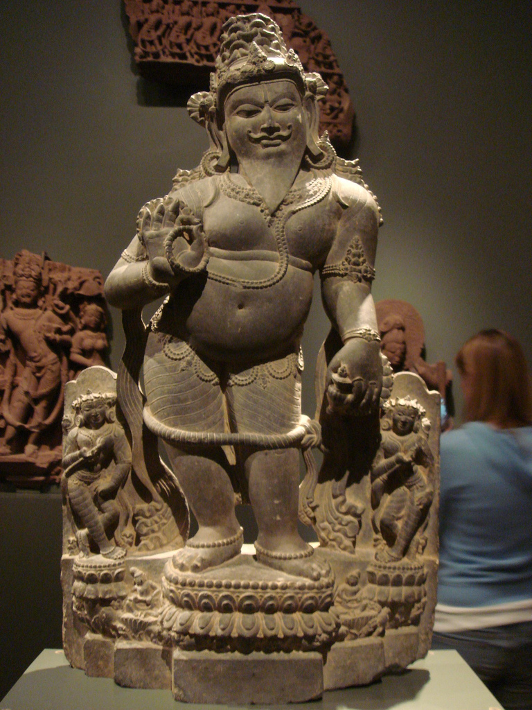 India, Bihar, Lakhi Sarai, South Asia The Maharishi (Great Sage) Agastya, 12th century Sculpture; Stone, Chloritoid phyllite, 26 3/4 x 14 1/4 x 4 3/4 in. (67.95 x 36.2 x 12.07 cm) Gift of the 2005 Collectors Committee (M.2005.30) Wikipedia Loves Art at the Los Angeles County Museum of Art This photo of item # M.2005.30 at the Los Angeles County Museum of Art was contributed under the team name "ARTiFACTS" as part of the Wikipedia Loves Art project in February 2009. Los Angeles County Museum of Art The original photograph on Flickr was taken by sisleyceli—please add a comment to the original Flickr page whenever a use has been made on Wikipedia or another project. Project galleries on Flickr: this institution, this team